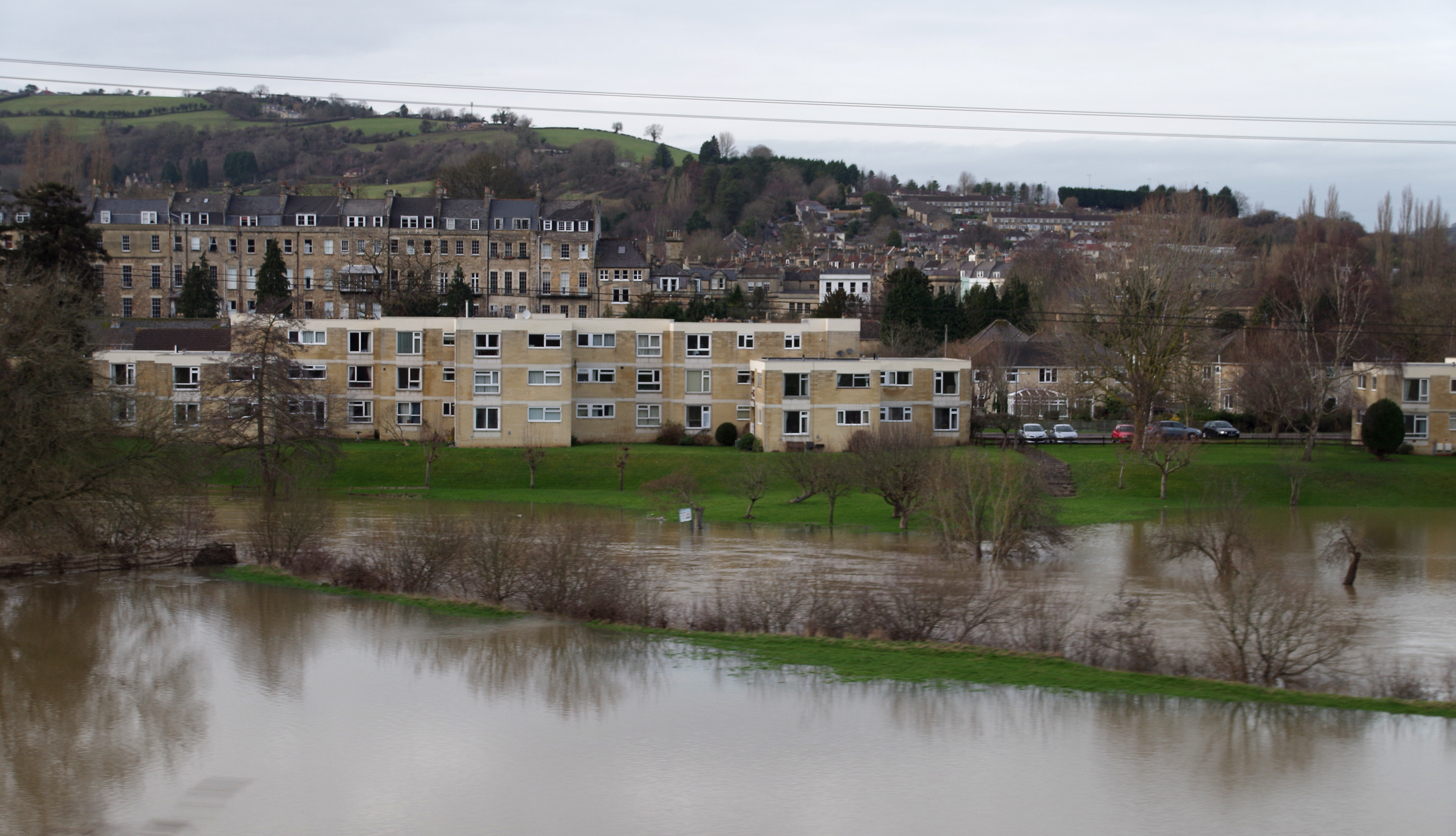 The flooded River Avon in Bath.